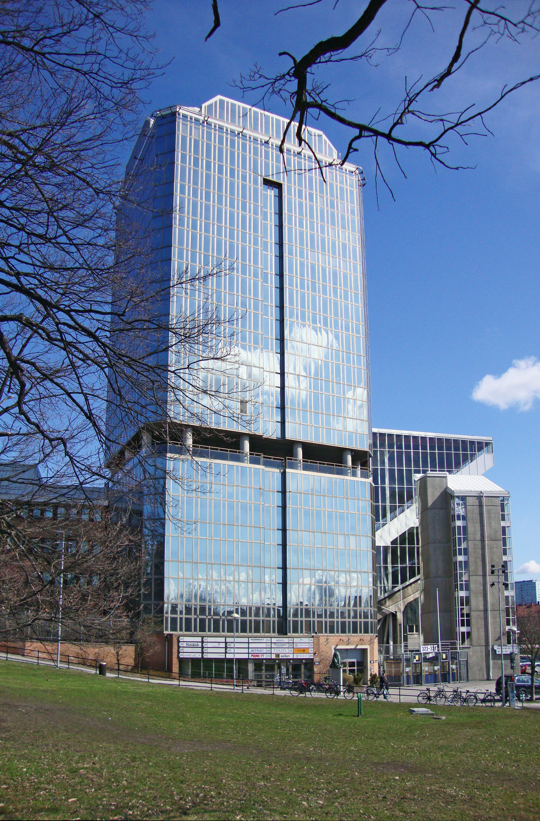 Råsunda Stadium office buildning in Hagalund, Solna in Sweden. Spring 2010.